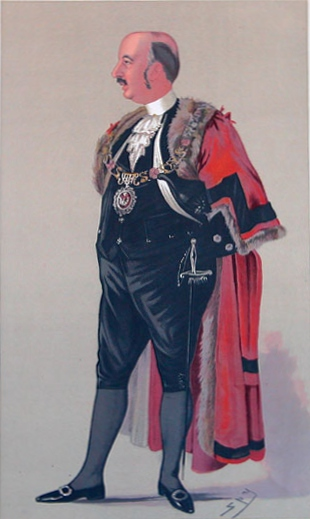 Caricature of Mr Alderman Joseph Savory JP DL, Lord Mayor of London. Caption read "a new Lord Mayor".